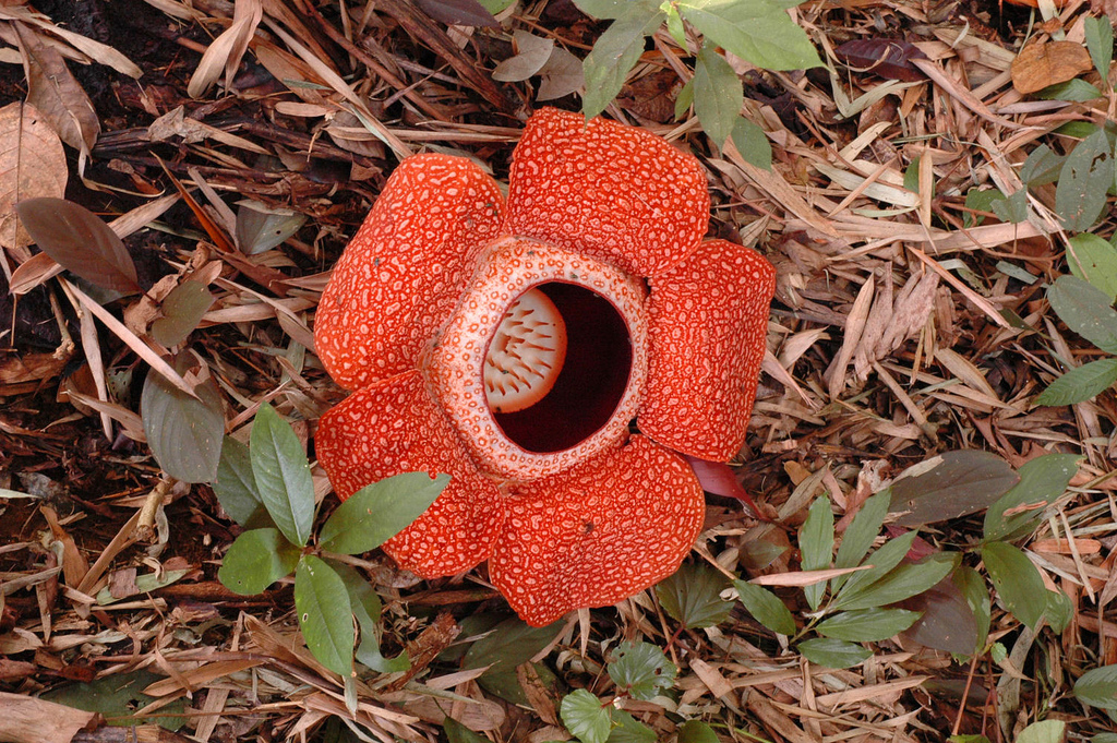 A full-bloom Rafflesia flower approx 80 cm (~2.6 ft) across growing in someone's back garden Most likely R. keithii, as the photo was tagged with Sabah, Borneo